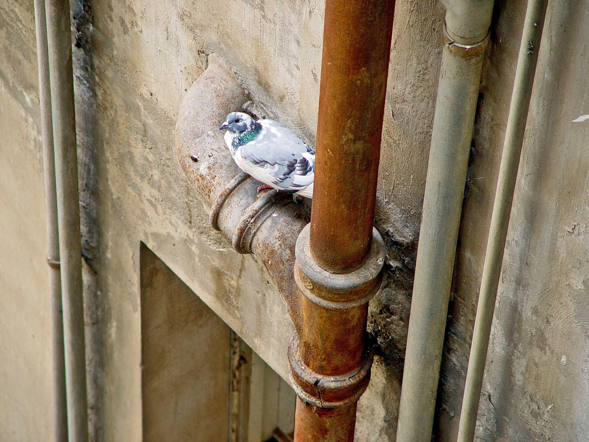 Water and Sewage pipes of a Jerusalem ~1930 building (King George St.). No evidence for any political significance to pigeon's presence.